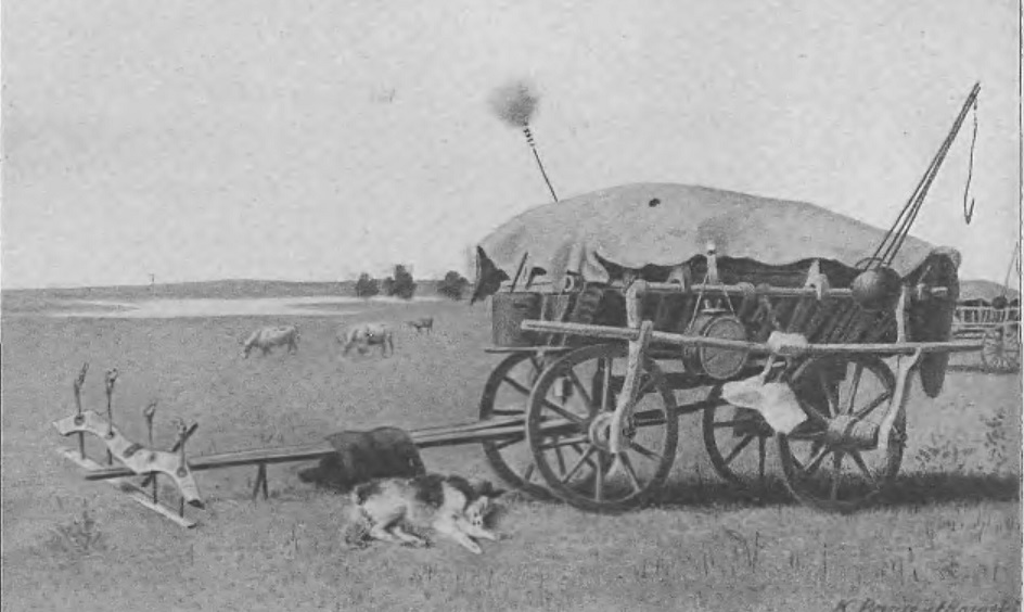 Chumak